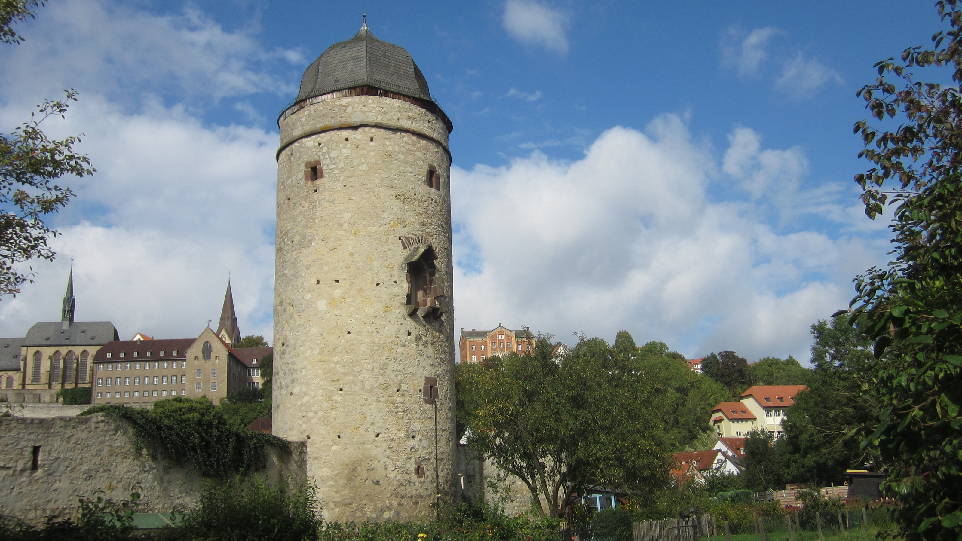 The Biermannsturm (Biermann's Tower) in the old city of Warburg in in eastern North Rhine-Westphalia in Germany, a fortified tower of rubble stone with schistose cover, built in the 14th century. Revisited and photographed as part of Wiki Loves Monuments 2015.This is a photograph of an architectural monument., no. 0